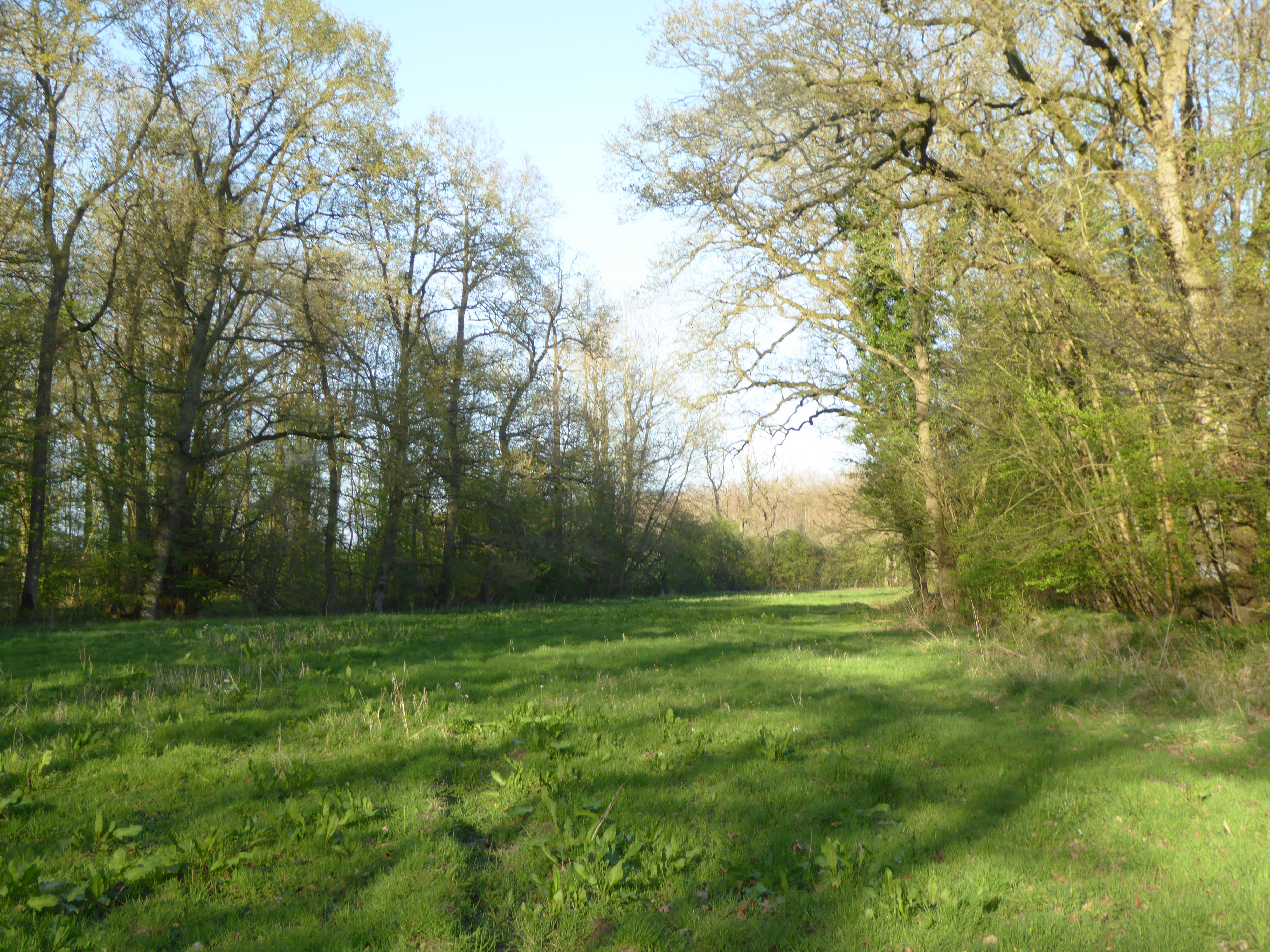 The ancient Whittlewood Forest is east of Silverstone in Northamptonshire. This is in one of a number of patches which have been designated a Site of Special Scientific Interest.